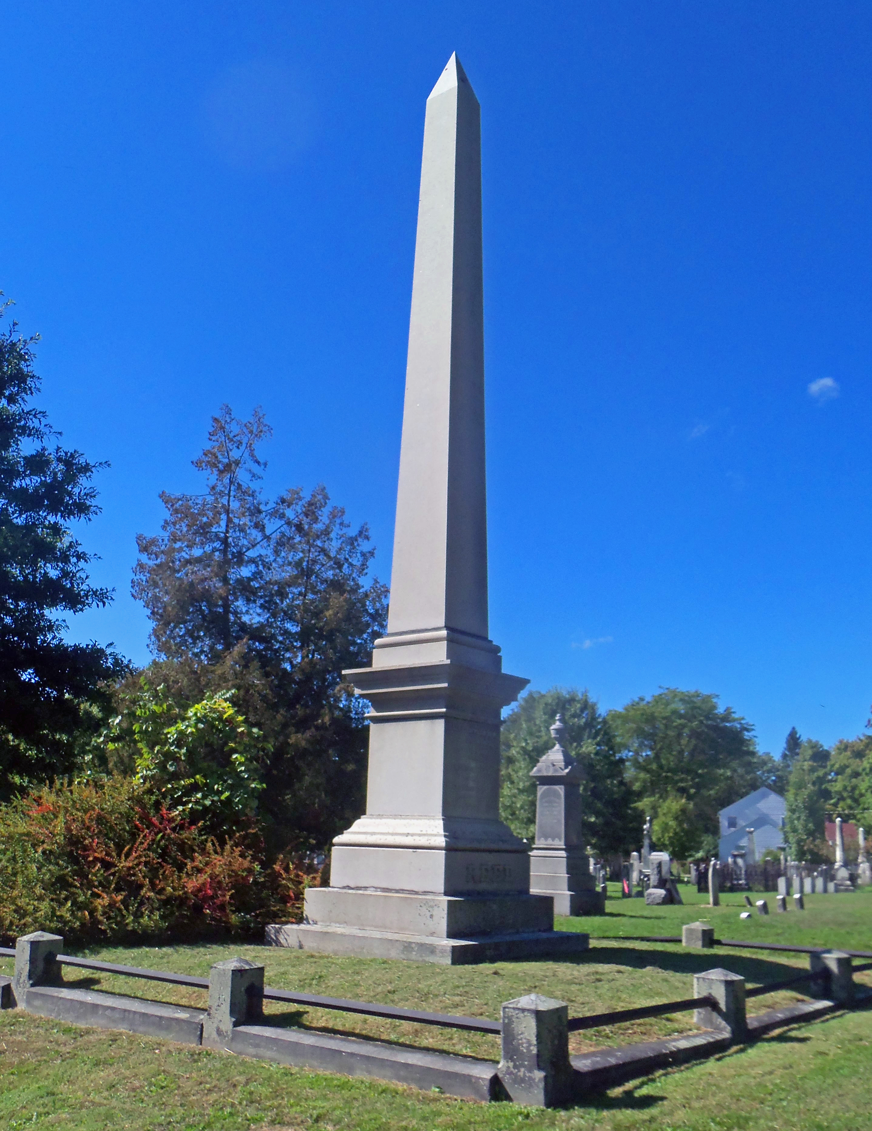 Obelisk in Spencertown Cemetery, Town of Austerlitz, NY, USA